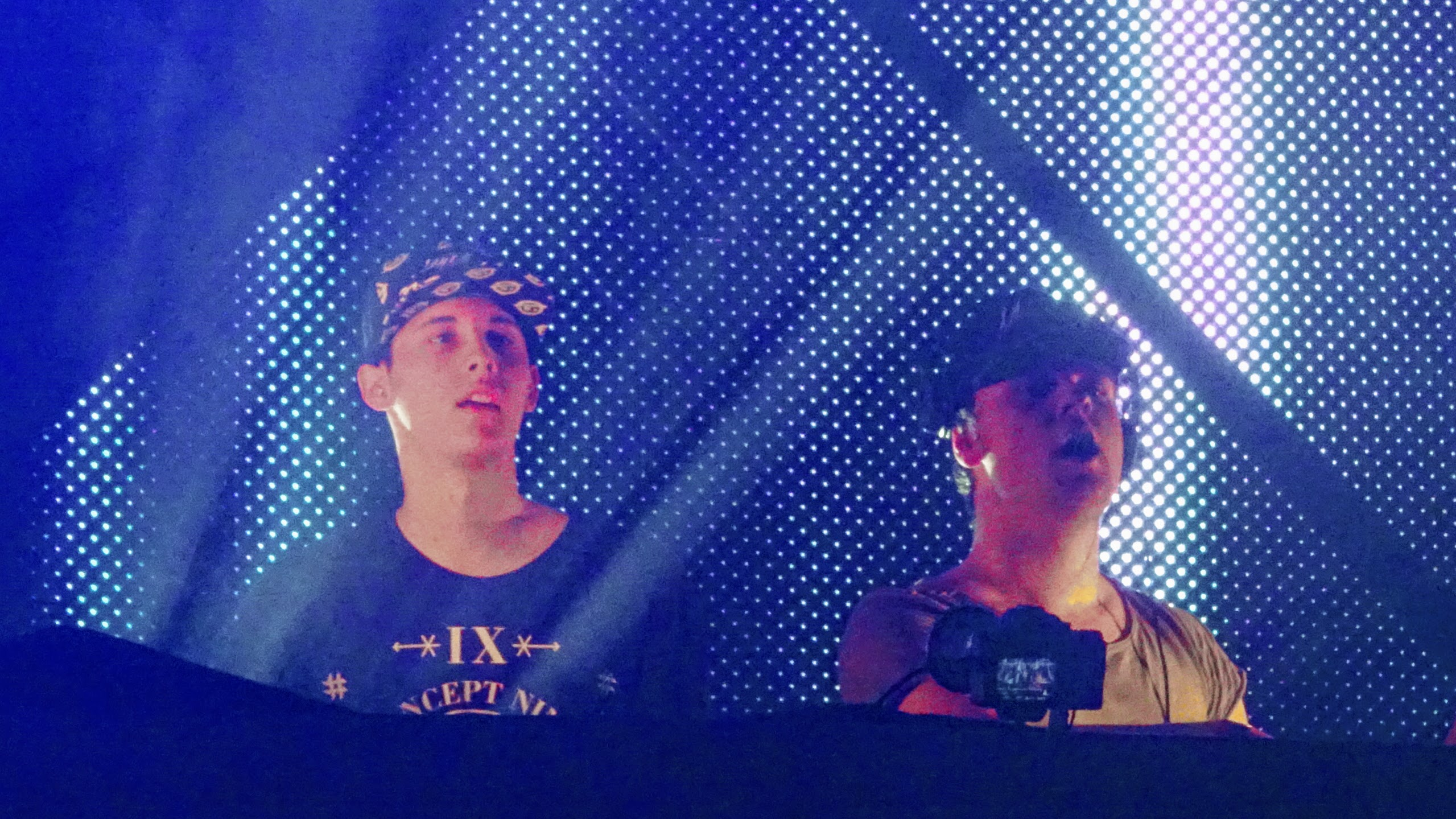 Sub Zero Project at defqon.1 2017 on the blue stage